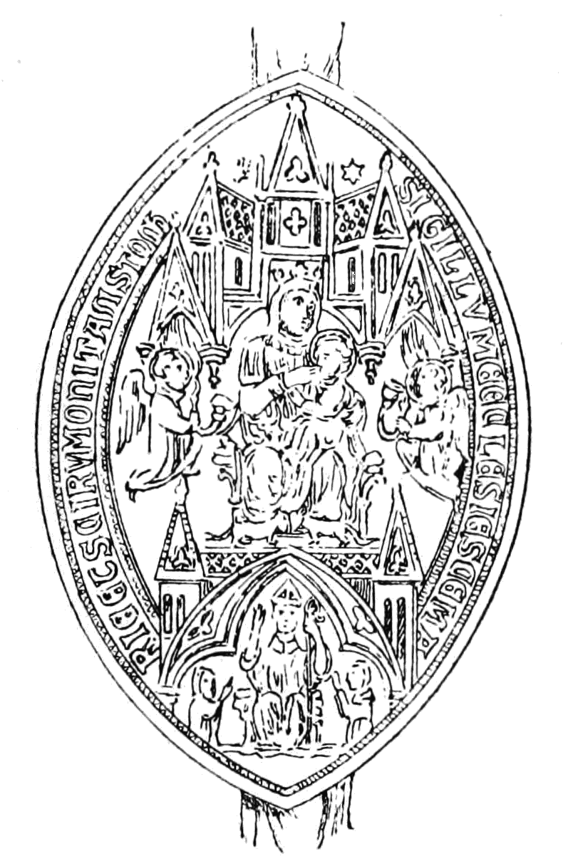 1542 Seal with Virgin and child of the house and hospital of poor and infirm lepers of Saint Mary Magdalene and Theobald of Tavistocke, affixed to lease by Robert Isaac, by divine permission 'custos sine gubernator' of the house and hospital of poor and infirm lepers of Saint Mary Magdalene and Theobald of Tavistocke, of three gardens at ffordestreete, to Guy Leyman and Joan his wife. Witnesses— John Glubb, William Roo, John Roo, Richard ffoster. Sept. 29. 34 Henry VIII